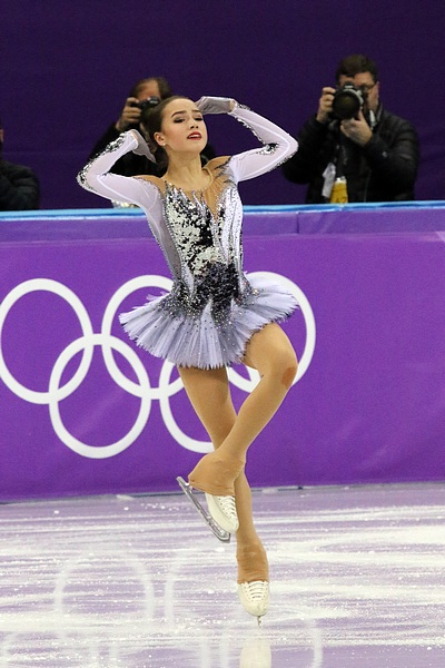 Alina Zagitova at the 2018 Winter Olympic Games - Short program